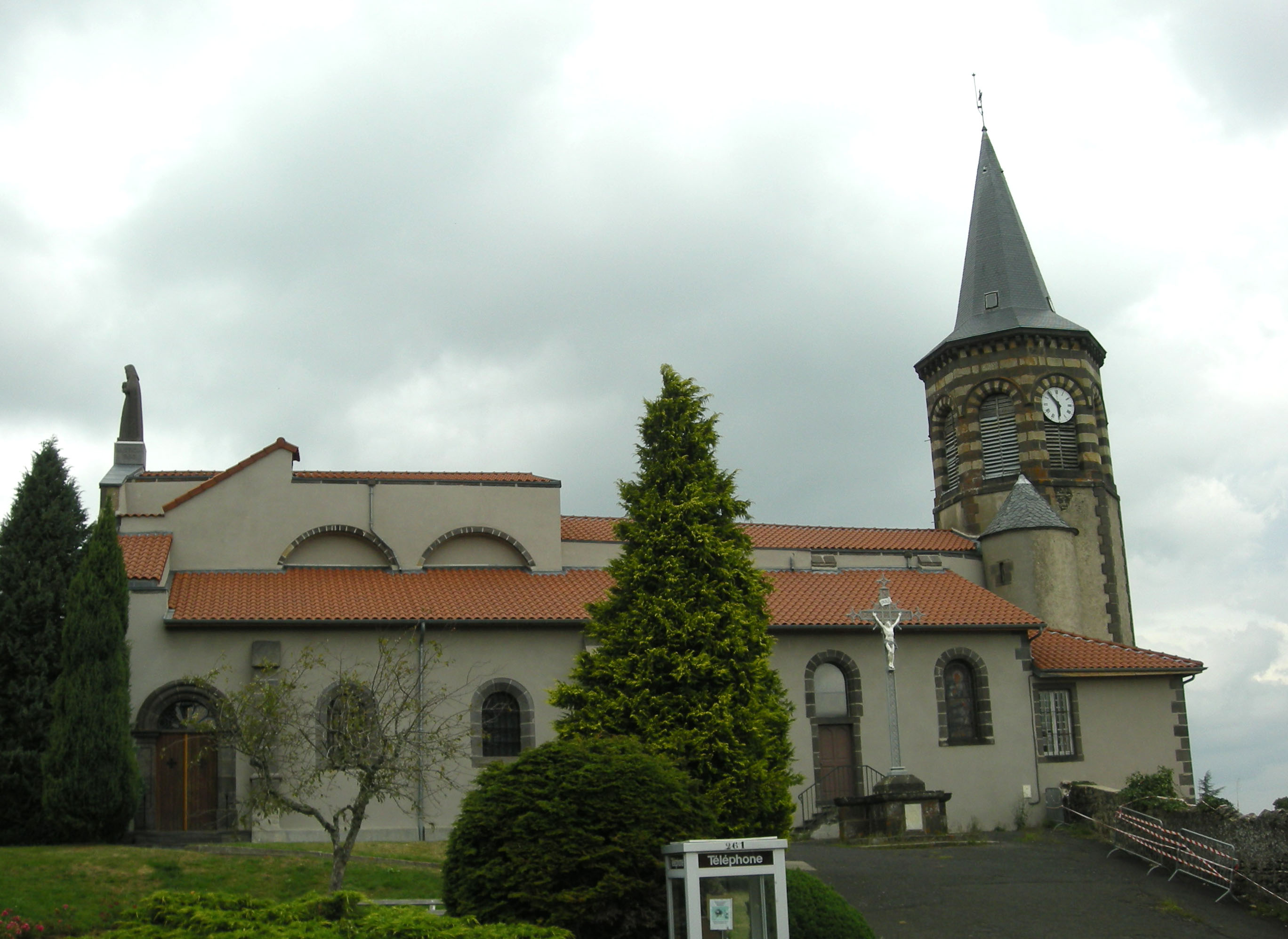 Church Saint-Julien in Orcines (Auvergne, France)